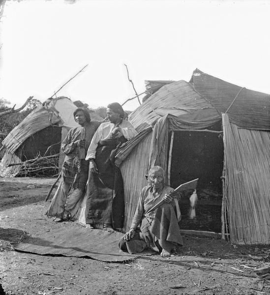 Wakandjaxega (Yellow Thunderbird) a Winnebago chief who reputedly was a centenarian when the picture was taken.